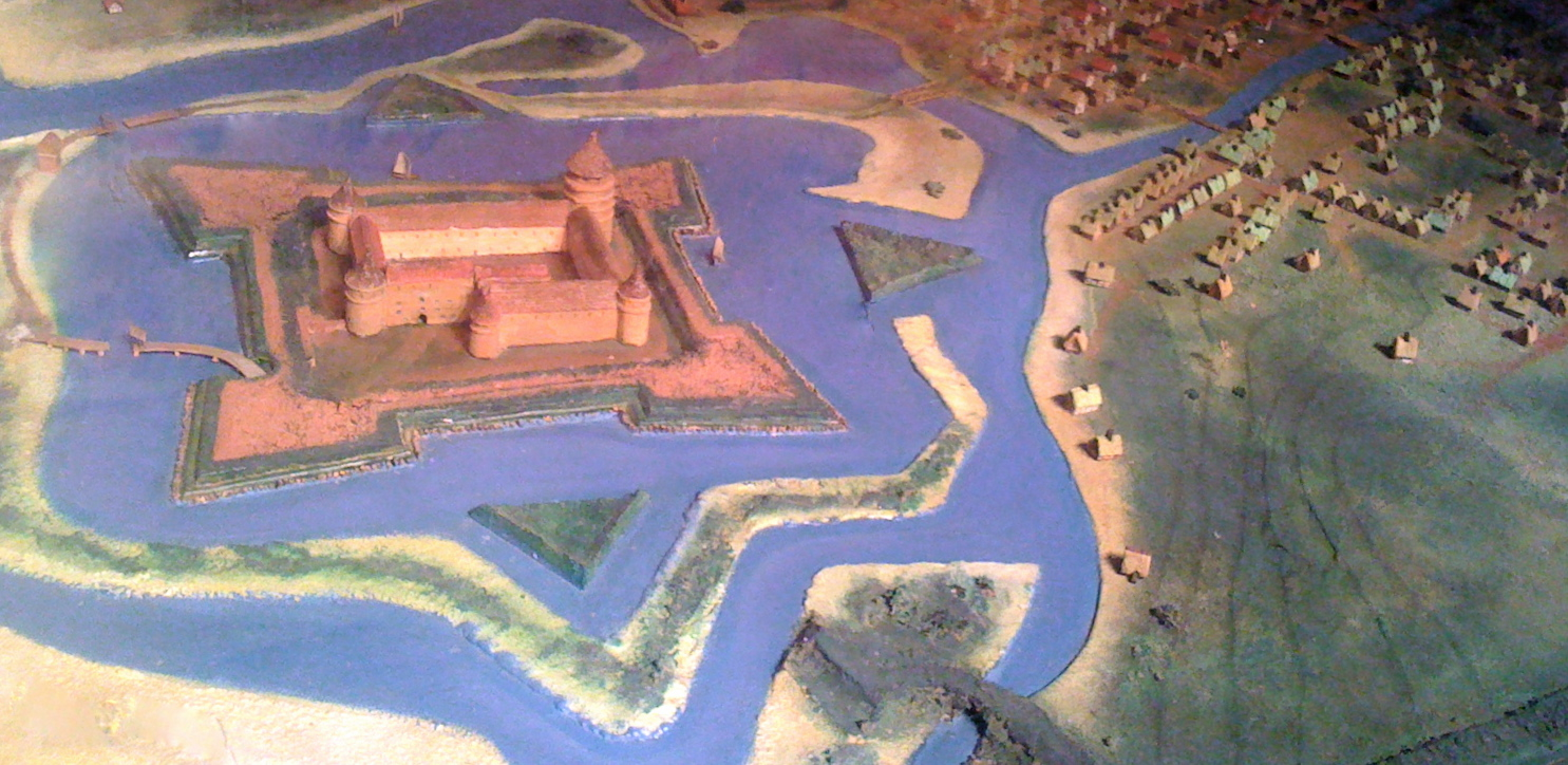 Memelburg castle